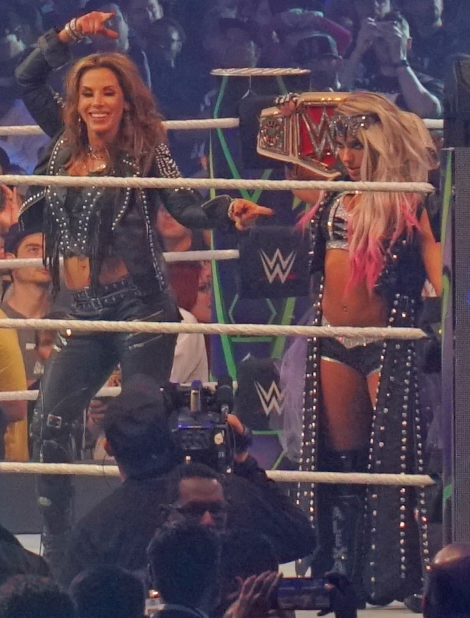 Mickie James (left) and Alexa Bliss (right) at the WrestleMania 34 event on April 8, 2018